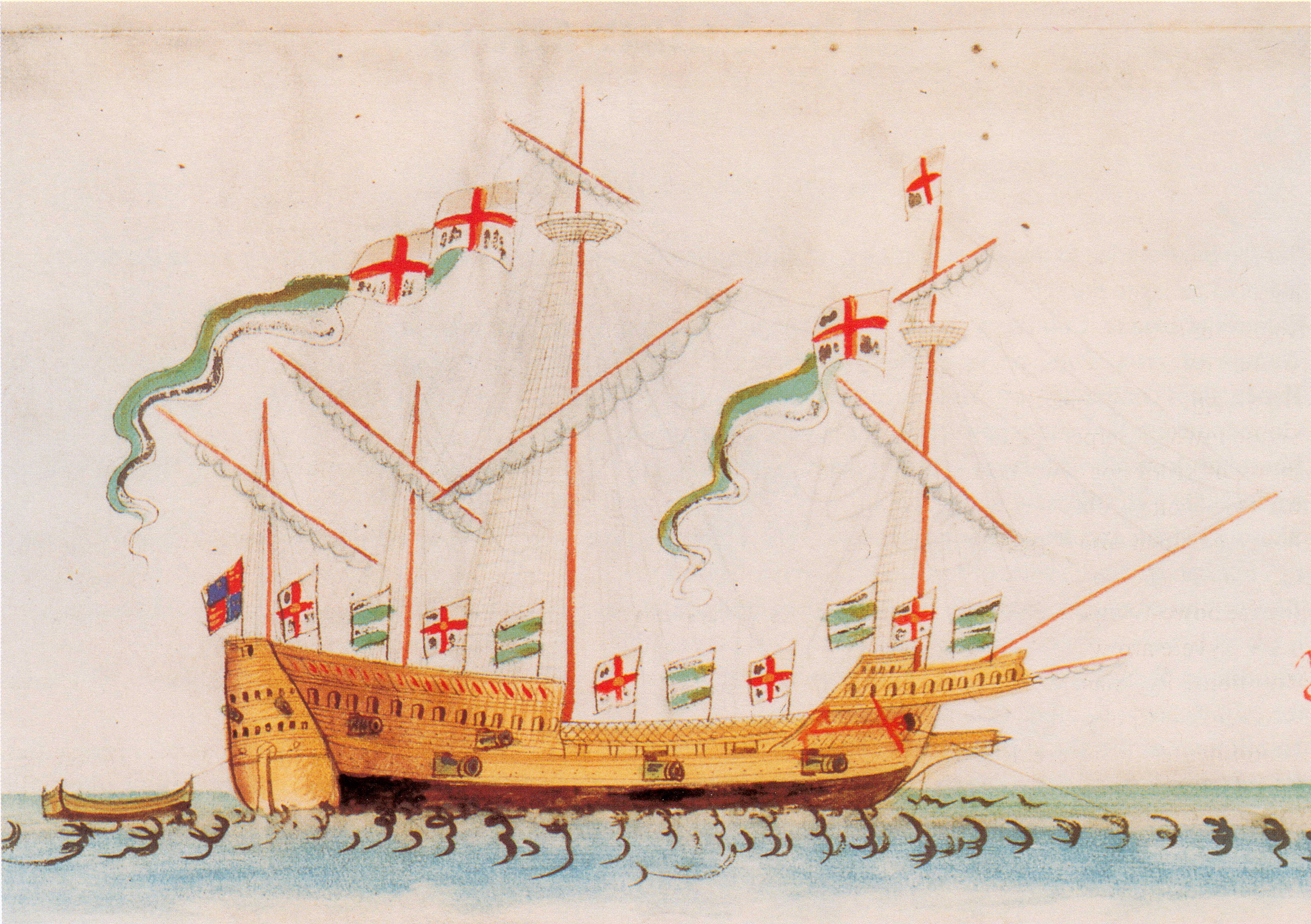 Illustration of the galleass Swallow. Notification about possible deletion Cathsuth (talk) 16:17, 9 February 2017 (UTC)